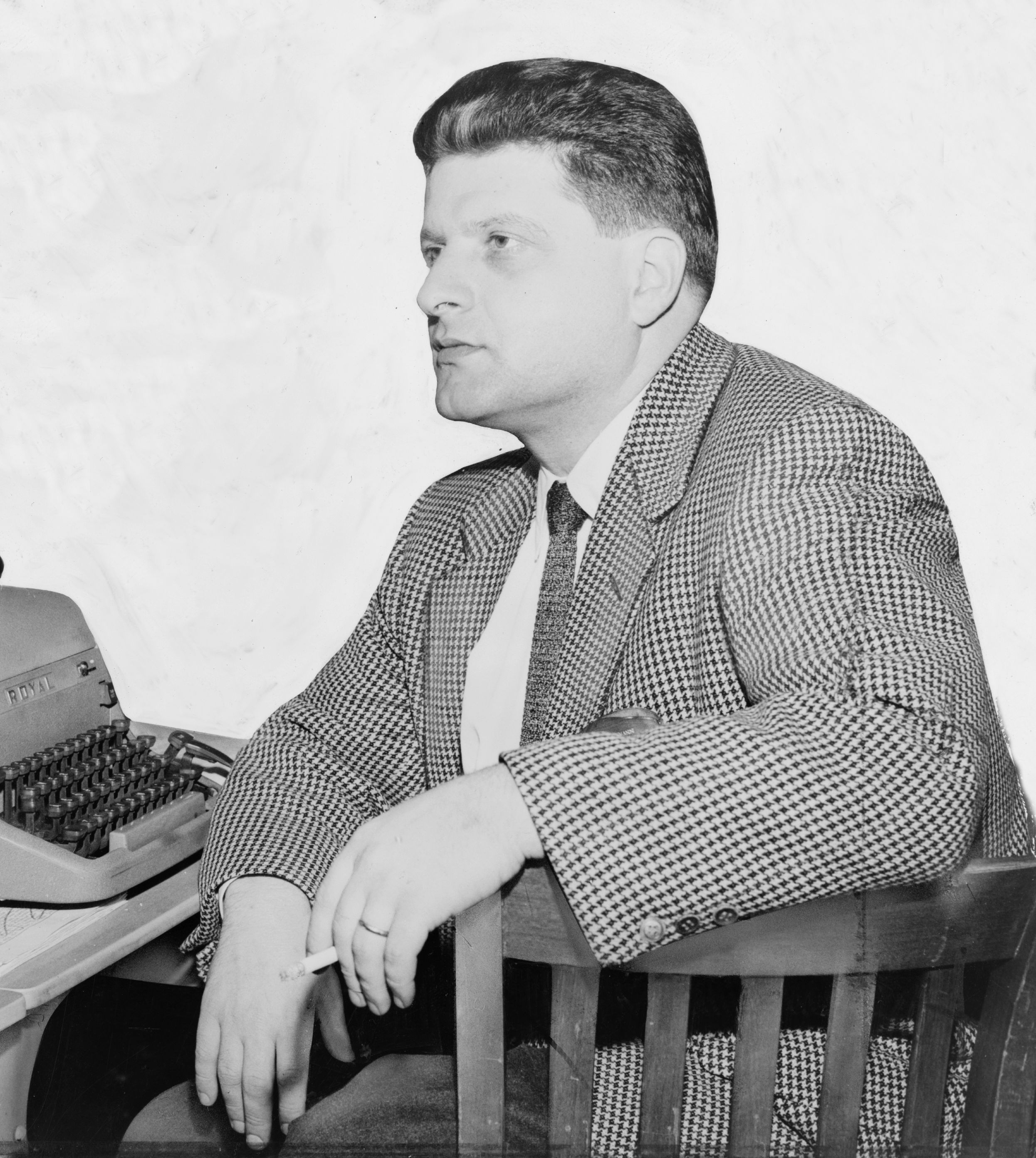 Paddy Chayefsky, half-length portrait, seated at typewriter, facing left / World-Telegram photo by Walter Albertin.